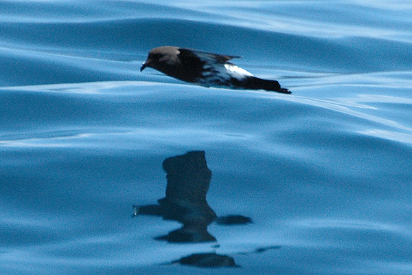 New Zealand Storm-Petrel (Oceanites maorianus)